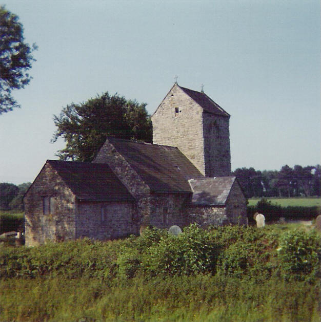 St Mary the Virgin Church at Caerau, Cardiff, in 1971 before it was deconsecrated and fell into ruin.